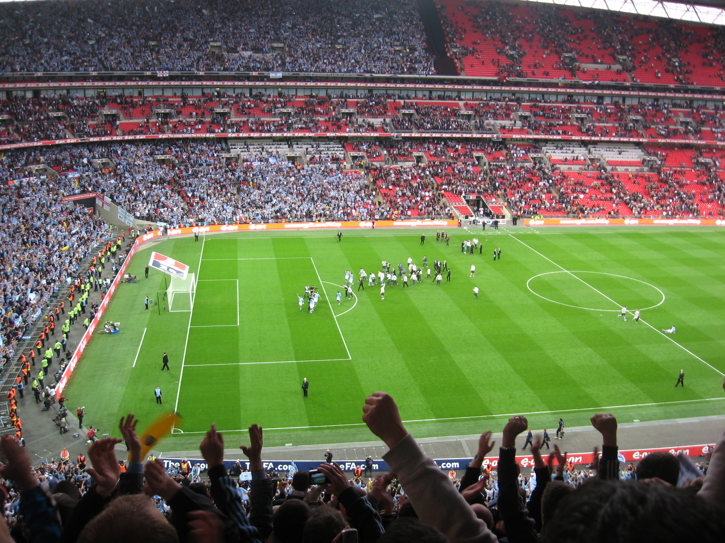 Manchester City F.C. players and fans celebrate following their 1–0 win over Manchester United at Wembley Stadium in the semi-finals of the 2011 FA Cup